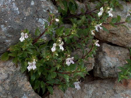 Prasium majus, North-Sardinia, Italy